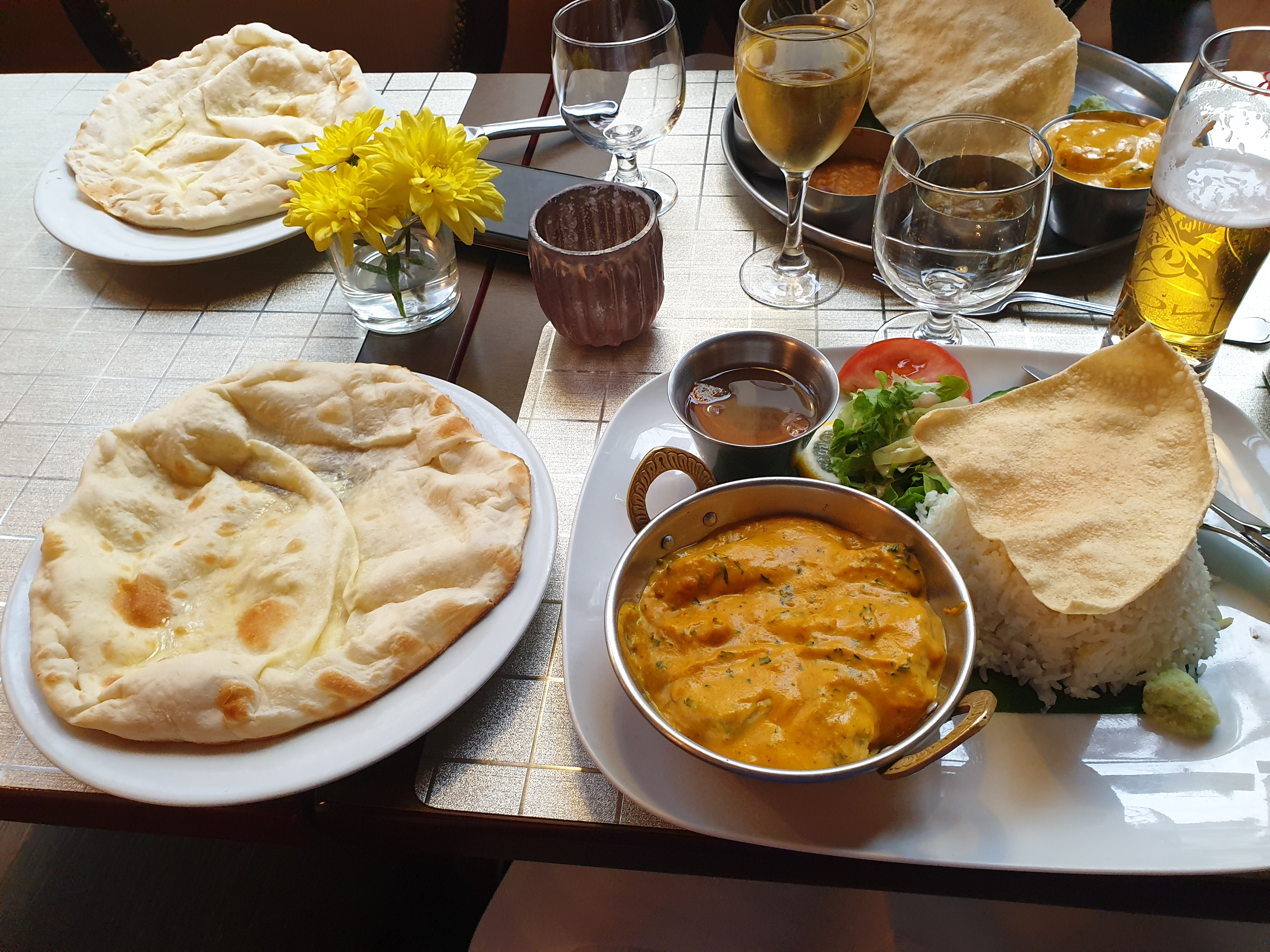 Indian food at restaurant in Paris.